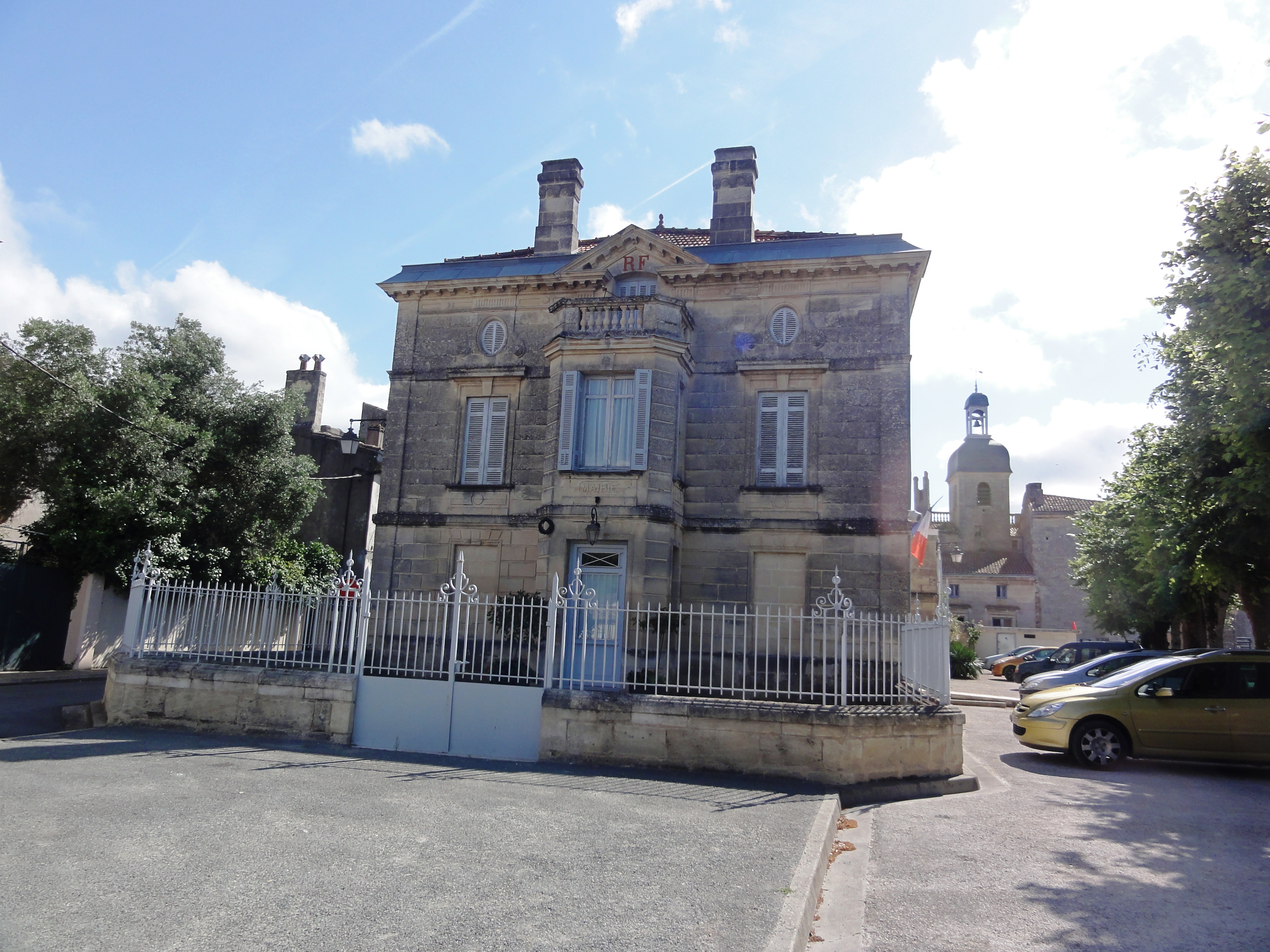 Bourg (Gironde) mairie; à droite, campanile de l'ancien hôtel de ville, ou Jurade